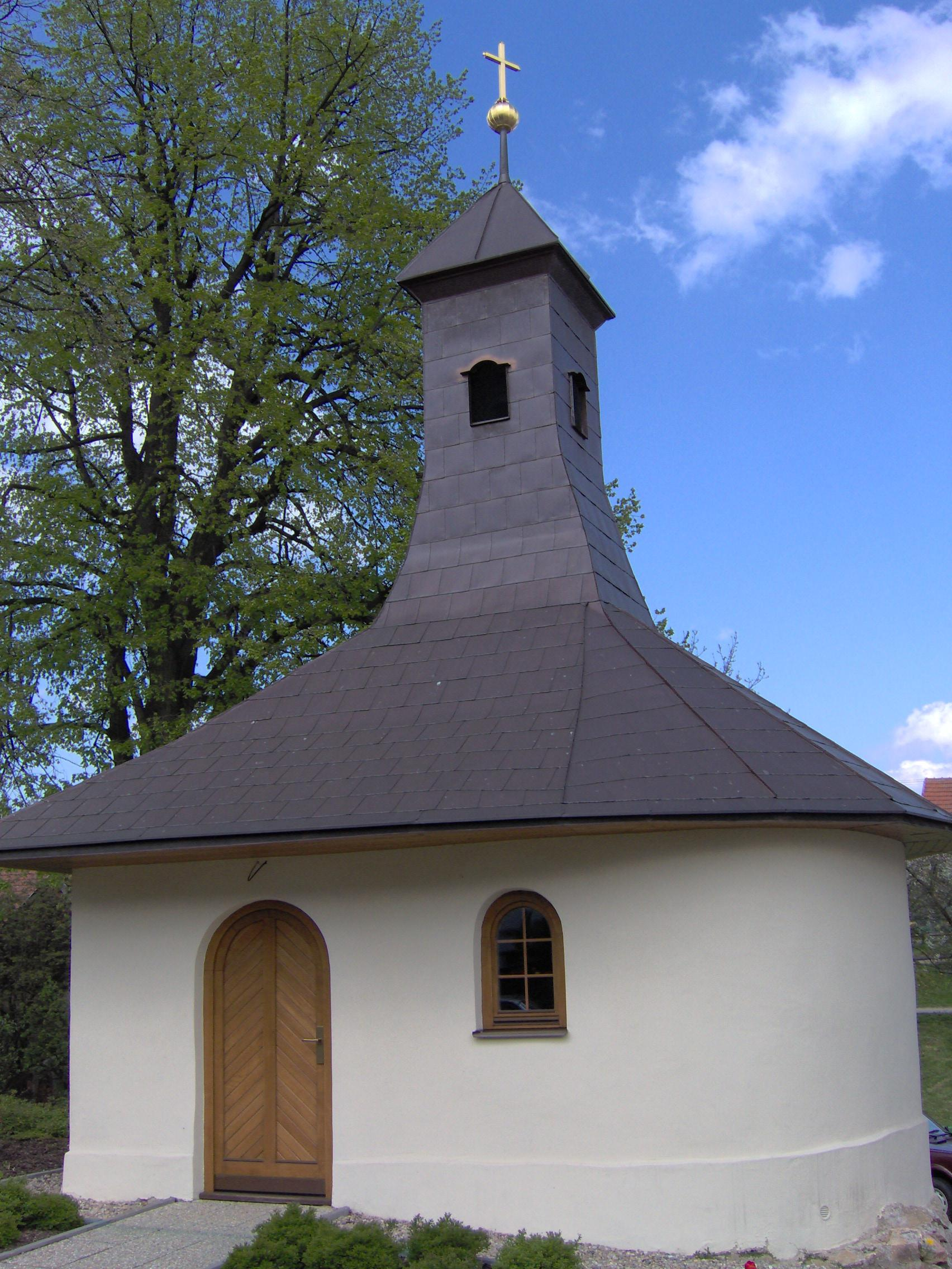 Old chapel in Jabloňov, Czech republic